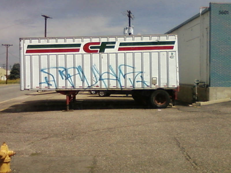 Consolidated Freightways trailer parked at a warehouse in Denver, Colorado.